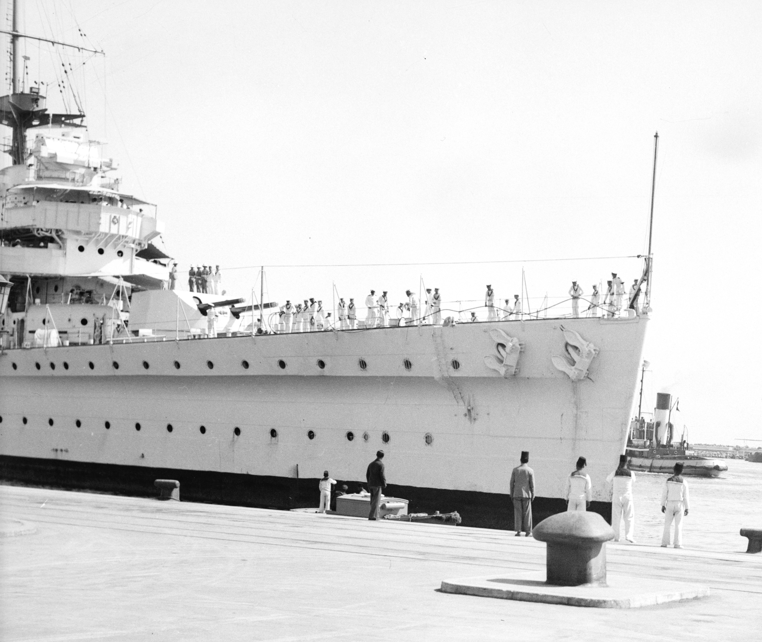 British light cruiser HMS Enterprise in Haifa Original title: Arrival of the Negus to Haifa Summary: Photo shows the family of Ethiopian Emperor Haile Selassie I arriving at Haifa on the British ship, the H.M.S. Enterprise, May 8, 1936.